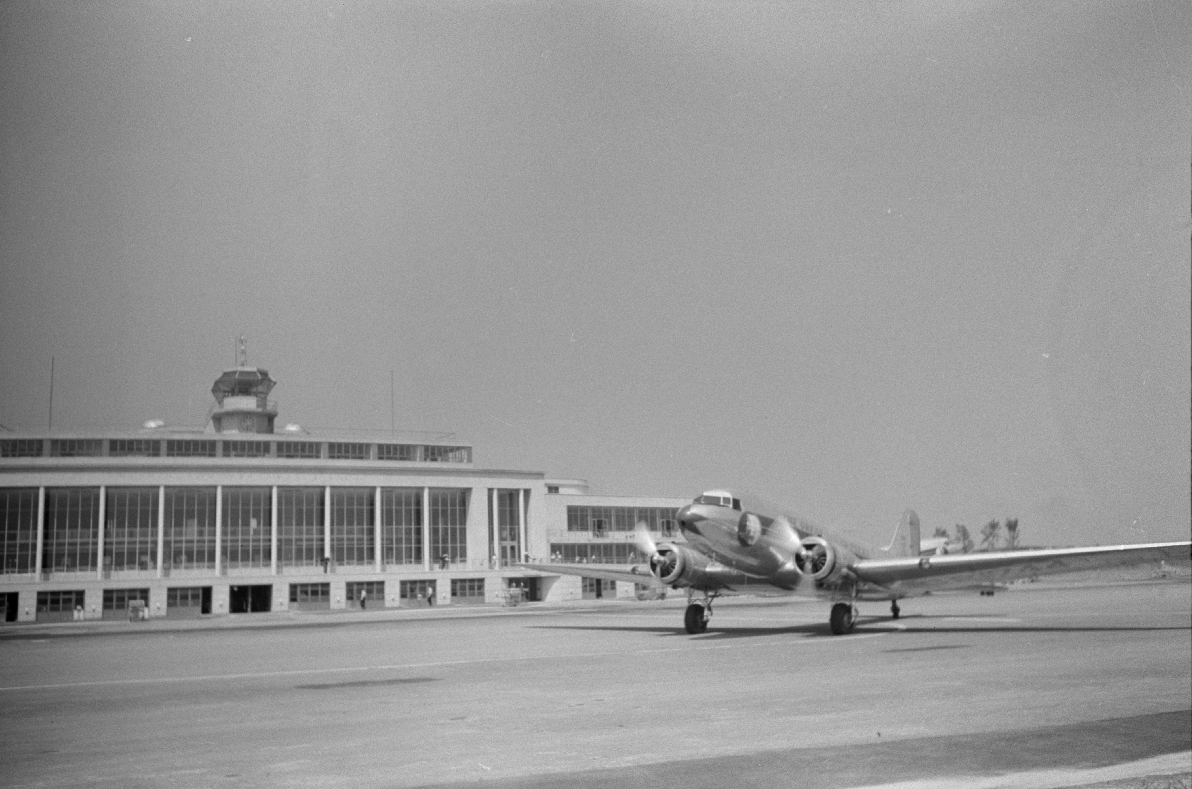 Washington National Airport. Original title:A plane taxiing off at the municipal airport in Washington, D.C.